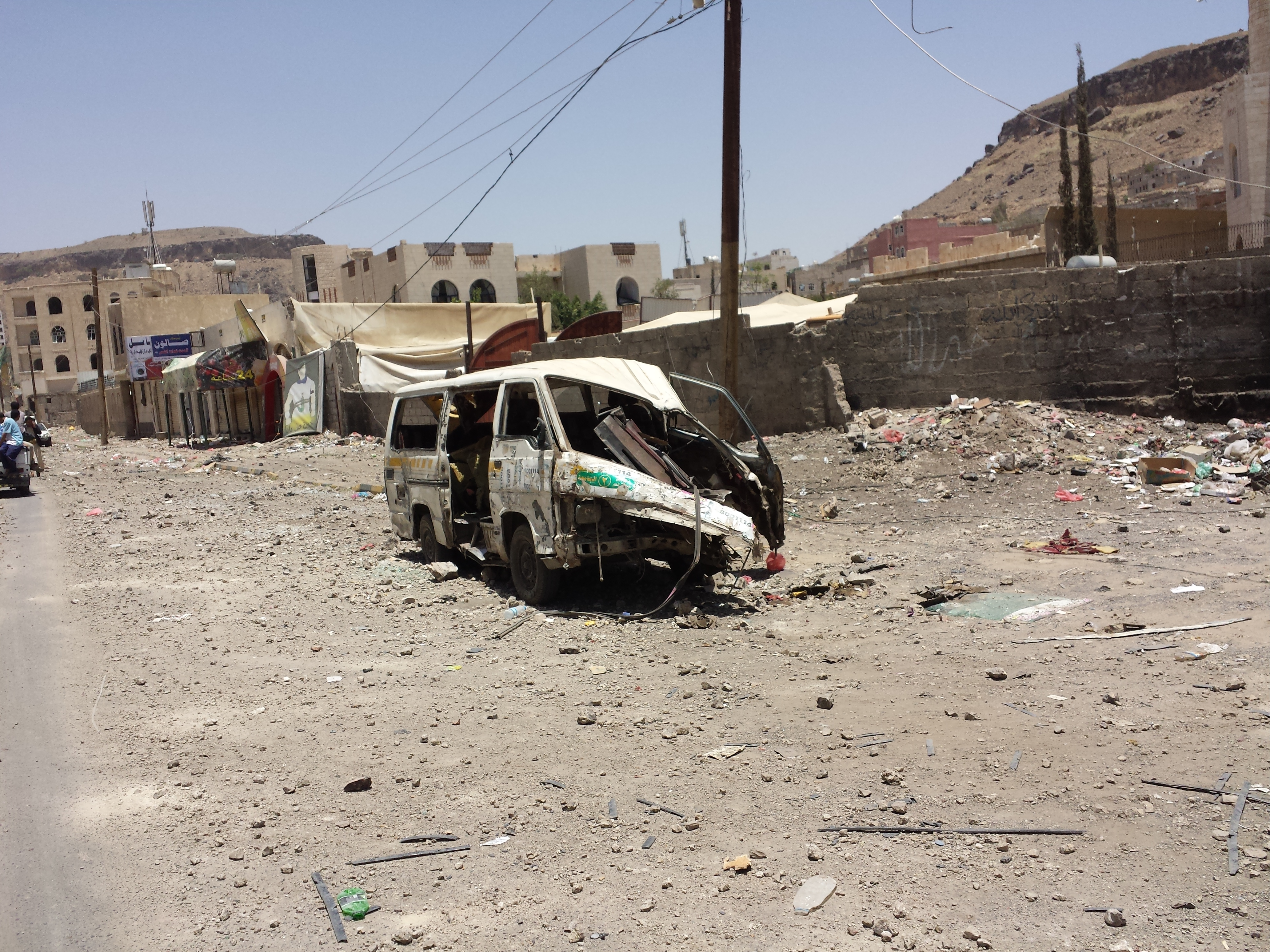 Widespread destruction in the residential neighborhoods near mountain Attan which suffered a blow air from warplanes from Operation Decisive Storm.